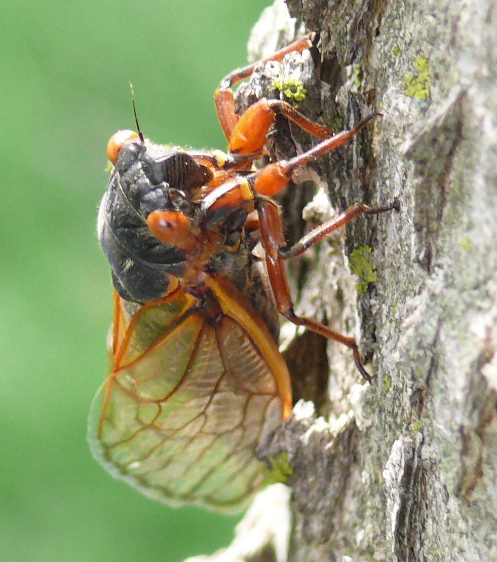 Magicicada on tree near Chicago il